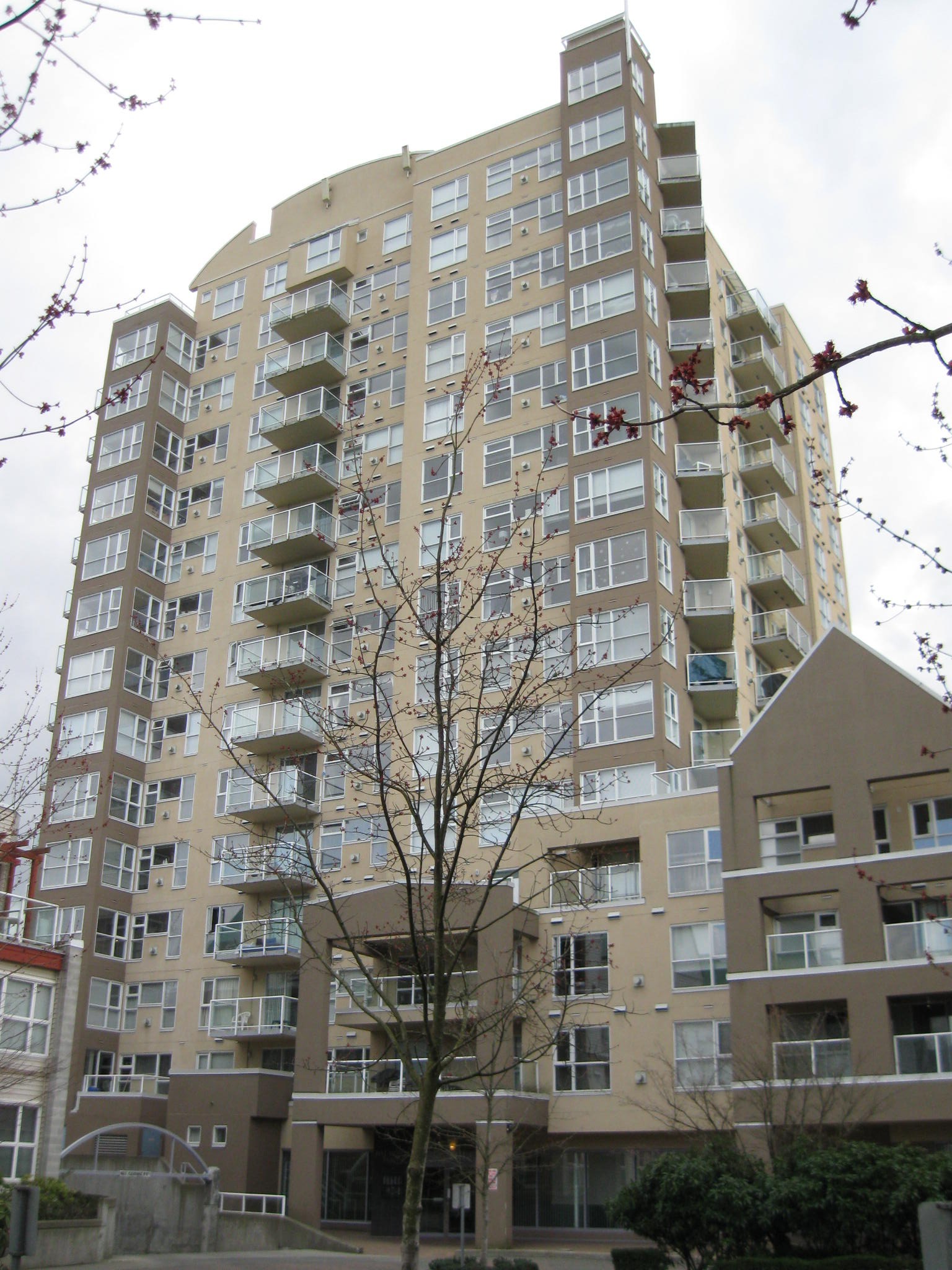 A view of the Balmoral (or King George Park) Tower High Rise condo building at 9830 Whalley Boulevard in Surrey, Canada. This building is located just one street block east of the King George Skytrain station in the City of Surrey, BC, Canada.